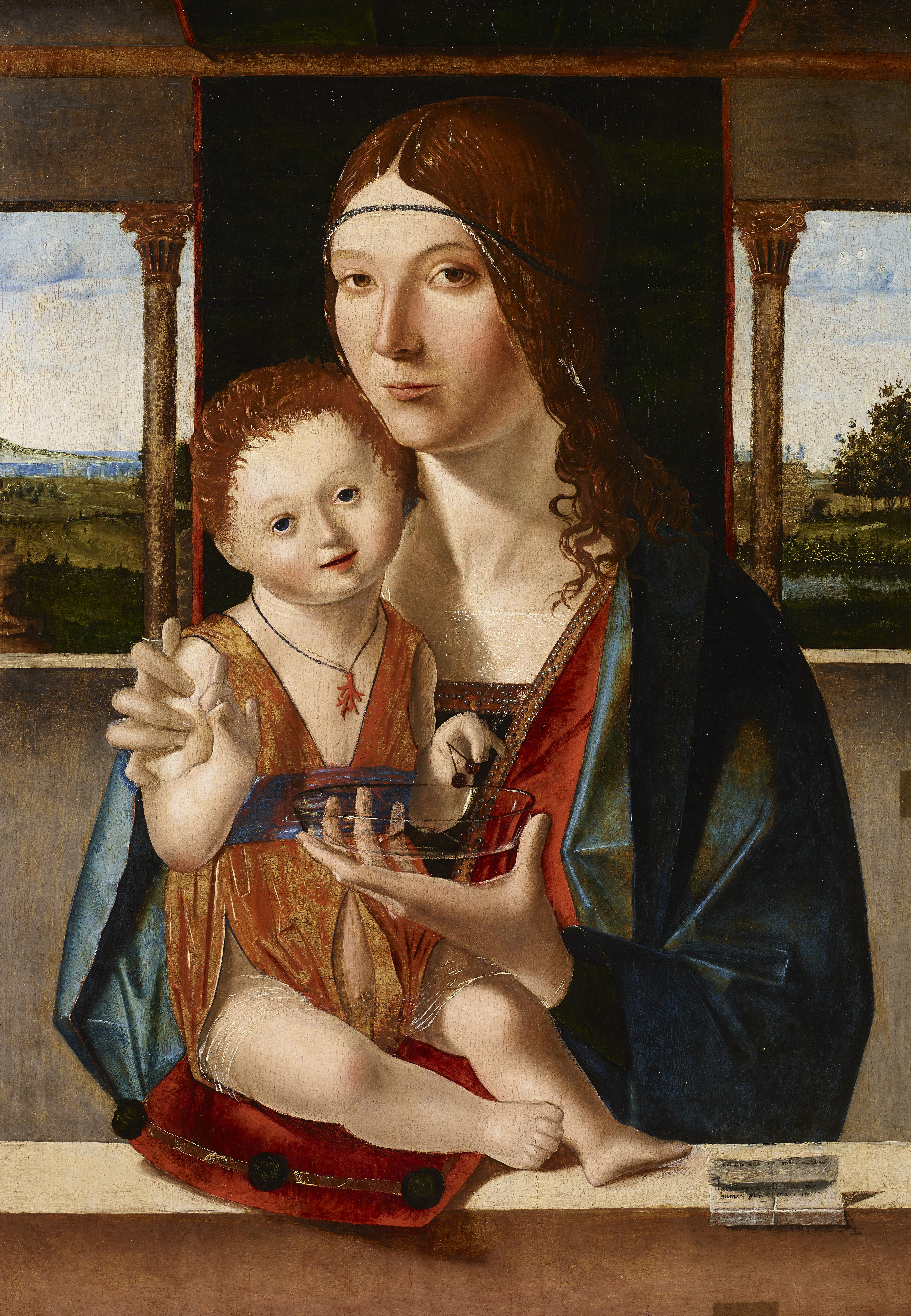 Mary and Jesus are depicted in a loggia with view into a landscape.The Madonna holds her son, who sits on a red velvet cushion on the parapet. Her fingers can be seen through a glass bowl in her hand from which the Child takes two cherries, symbols of Paradise.